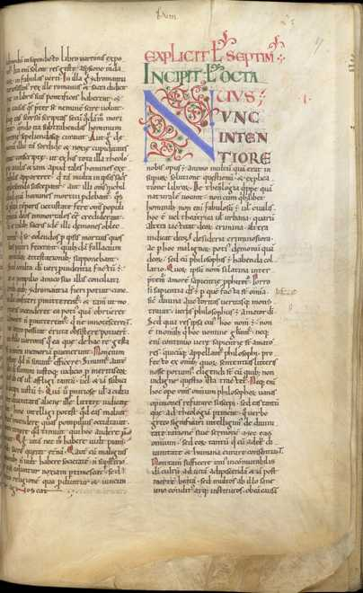 Display capitals and decorated initial "N" mark the end of Book VII and beginning of Book VIII. Probably produced at Bath